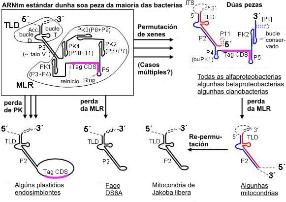 History of ssra translated to Galician